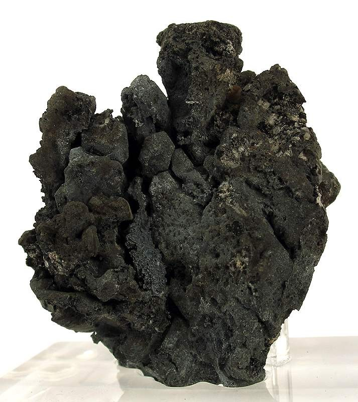 Lead Locality: Långban, Filipstad, Värmland, Sweden (Locality at ) Size: 6.1 x 4.4 x 3.5 cm. A stocky, robustly crystallized specimen of native lead from the classic old locality for this element in crystal form, Langban.